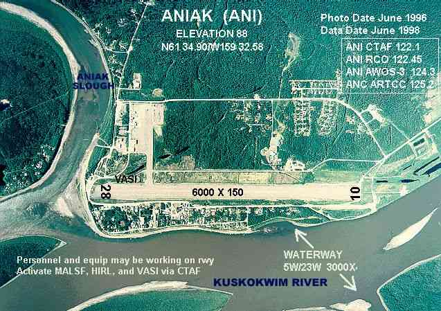 Annotated aerial photograph of Aniak Airport (FAA: ANI) in Aniak, Alaska, United States.